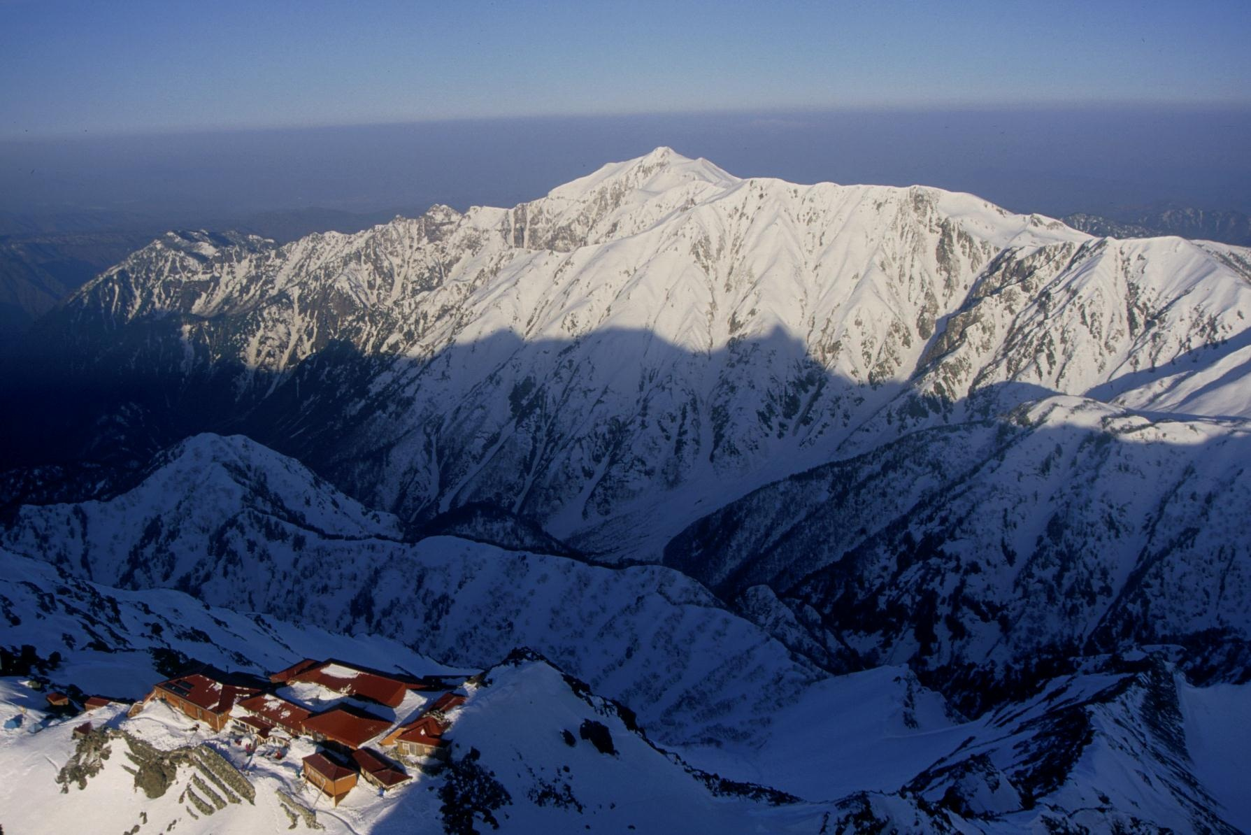 Mount Kasa with Shadow of Mount Yari and hut (Yarigatake-sanso) form top of the Mount Yari, Hida Mountains, Japan.